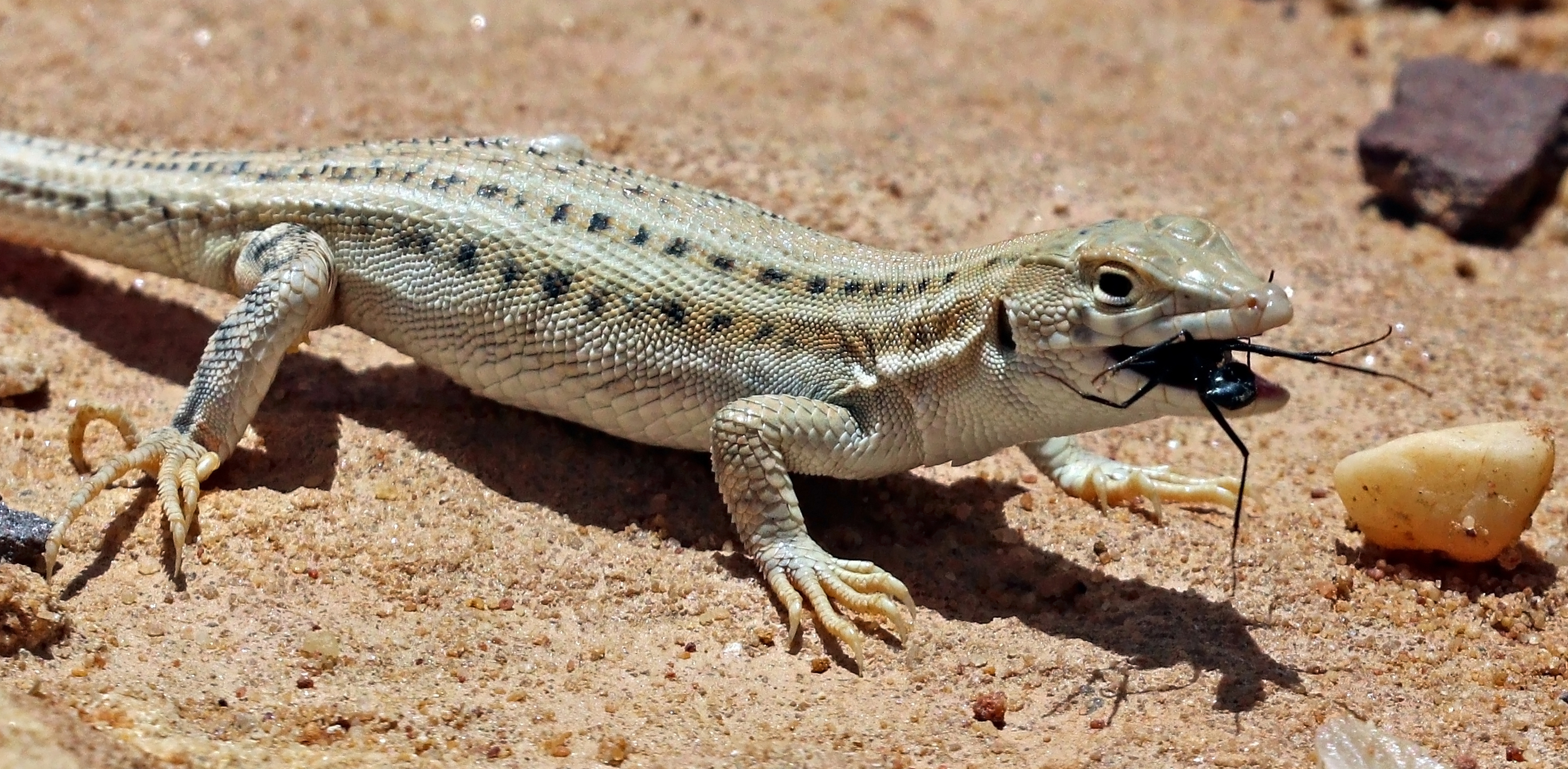 Bosc's fringe-toed lizard (Acanthodactylus boskianus asper) juvenile, Dana Biosphere Reserve, Jordan